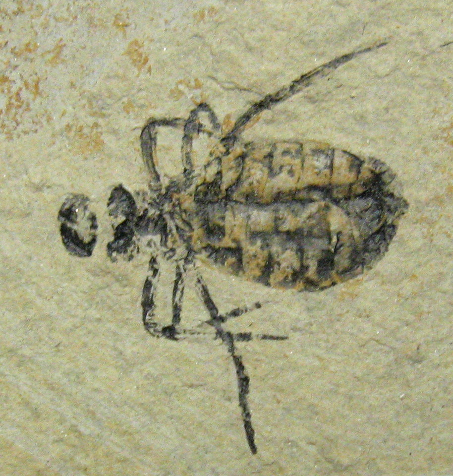 A 20 mm long larva of the extinct Libellula doris. Miocene, Italy. Stonerose Interpretive Center Gary Eichhorn insect collection #SR EI 07-01-02